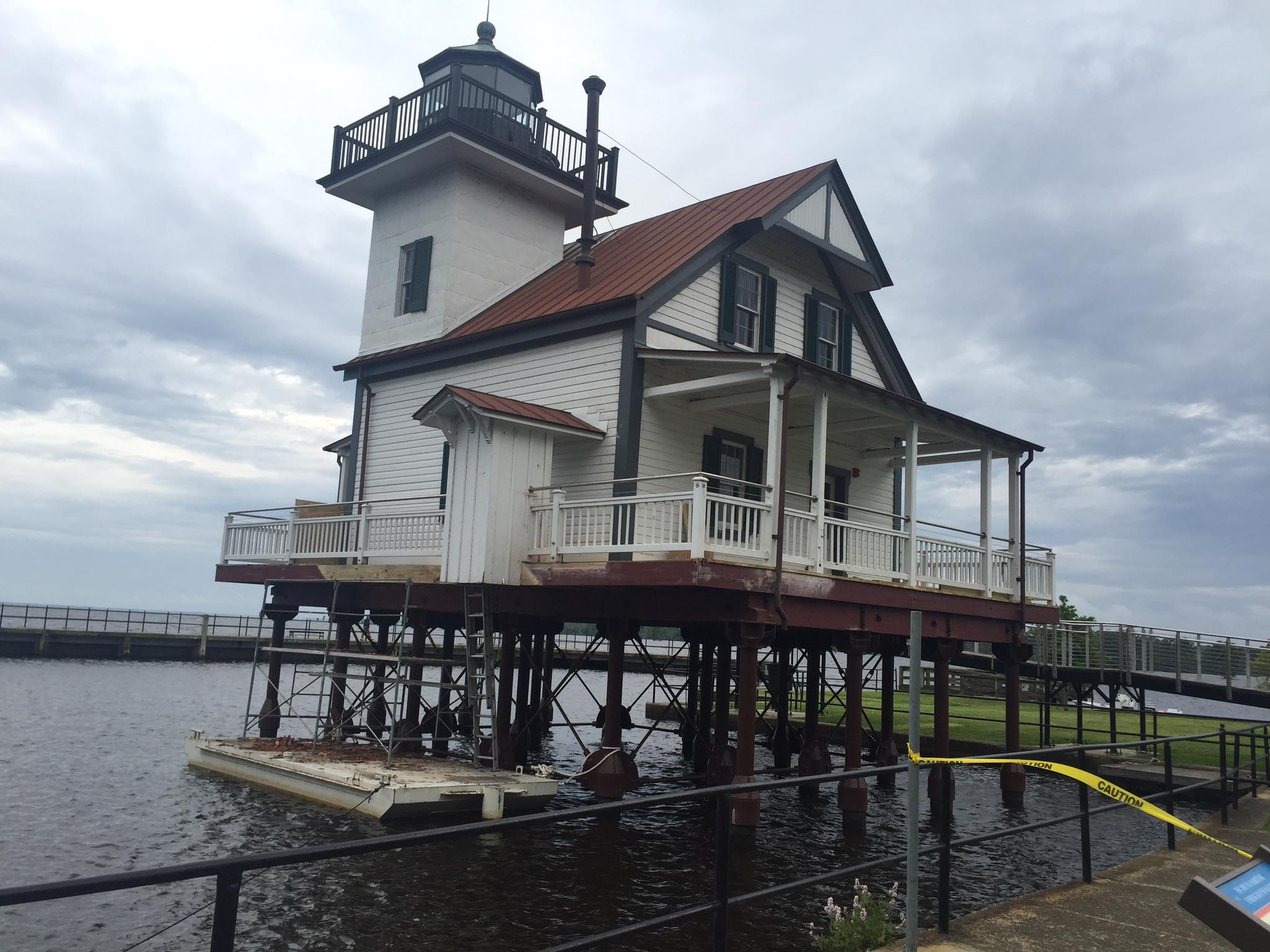 Photo taken on the waterfront of the City of Edenton, North Carolina. It is intended to be added to Roanoke River Light.